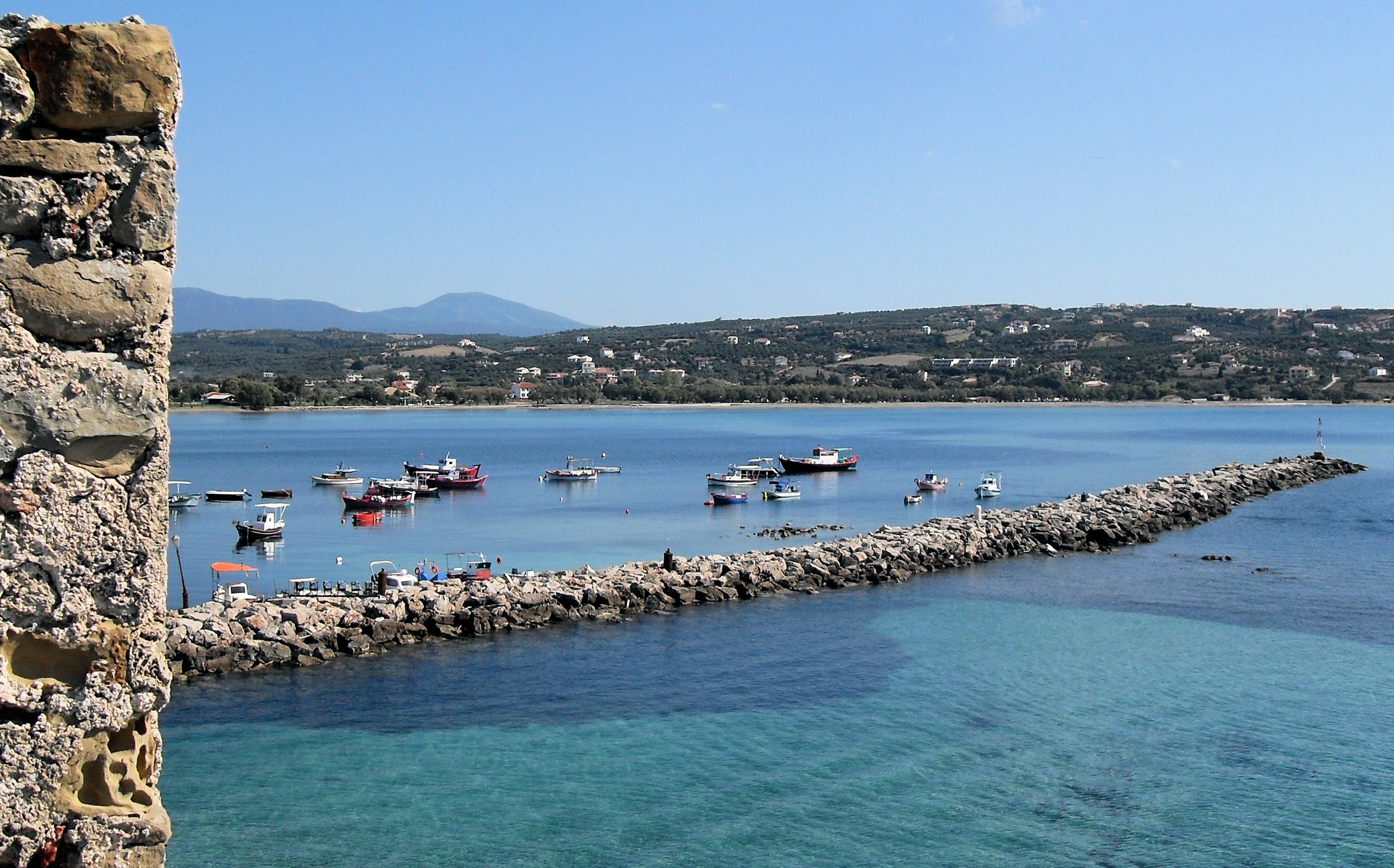 the port of Methoni